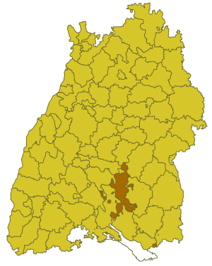 Map of Baden-Württemberg with the former county of Sigmaringen before 1973